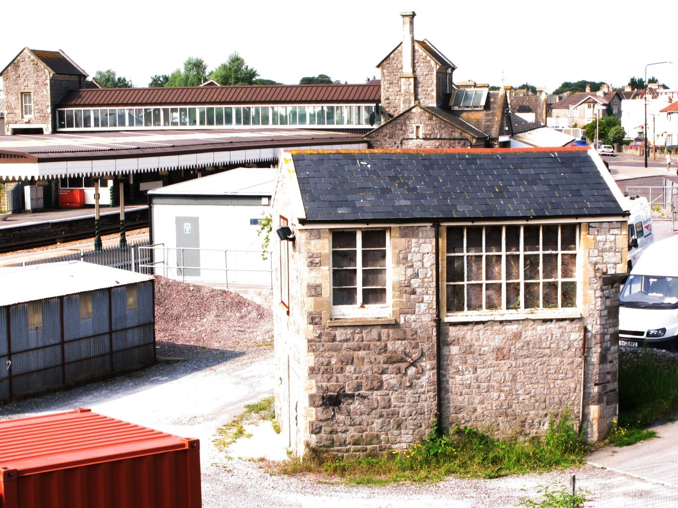 Signal box at Weston-super-Mare, North Somerset, England. It was built circa 1866 for the Bristol and Exeter Railway and subsequently extended.